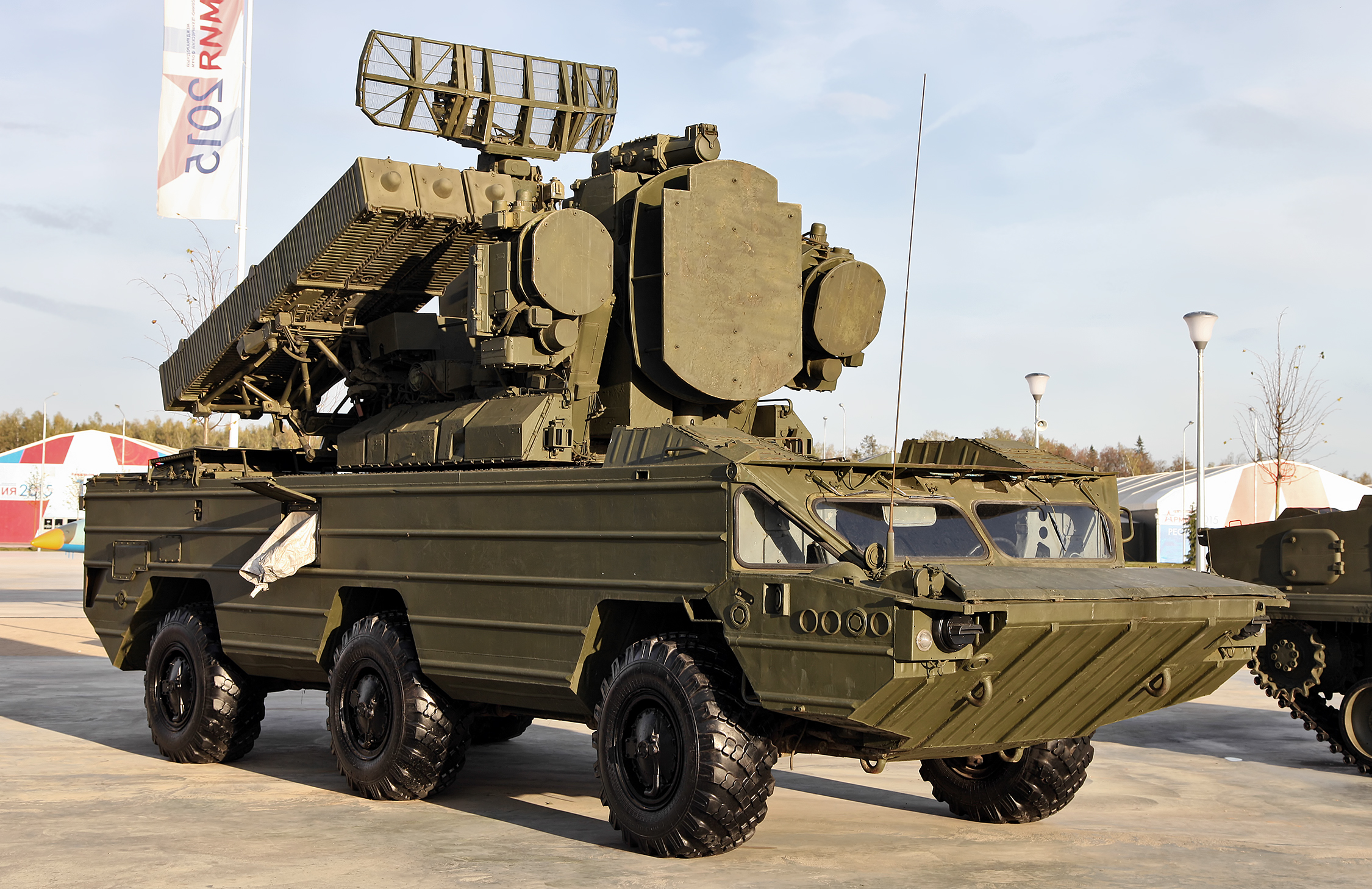 9A33BM3 TELAR from Osa-AKM system